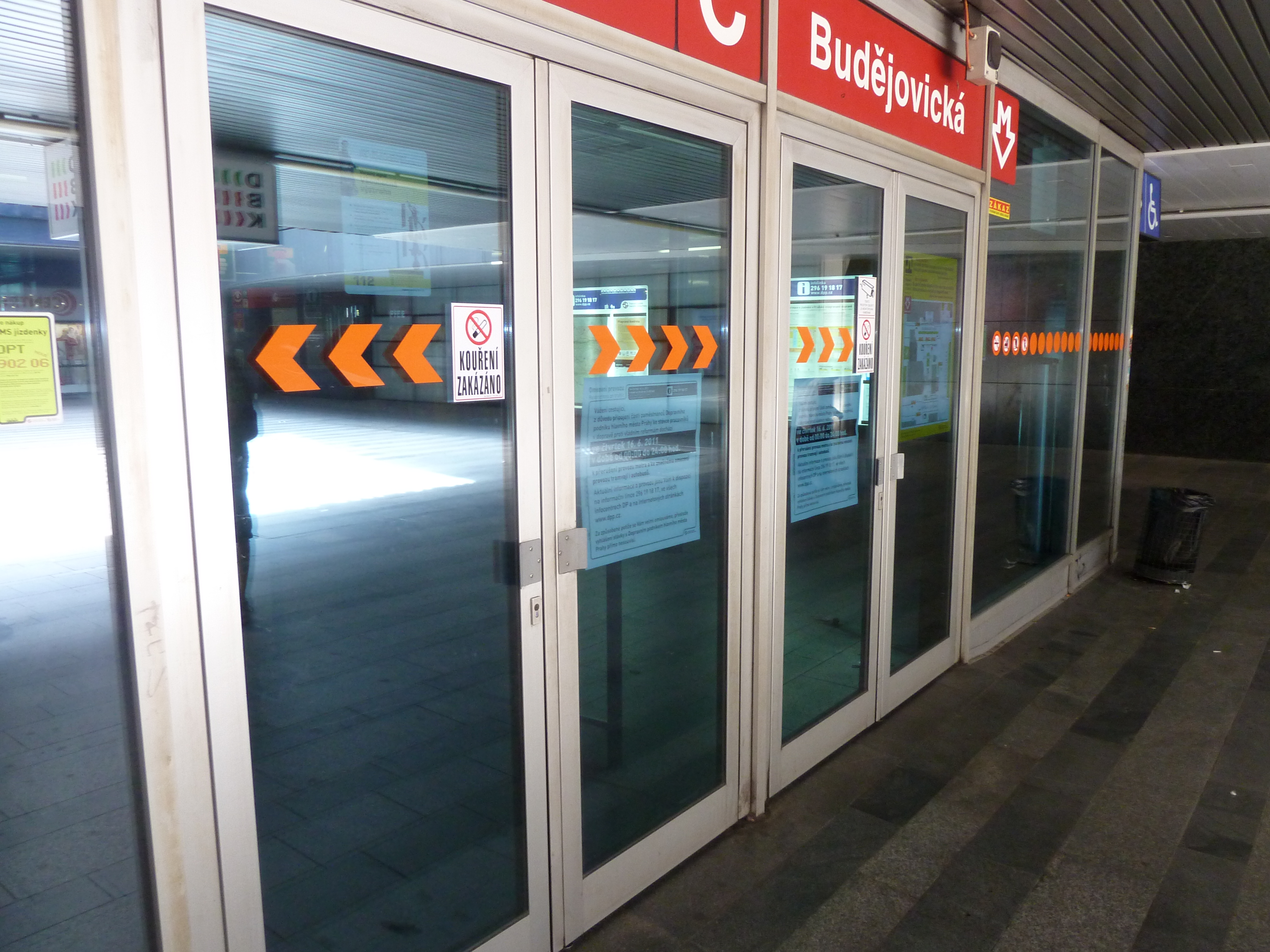 Closed station of Prague metro Budějovická during the strike of 16th June 2011